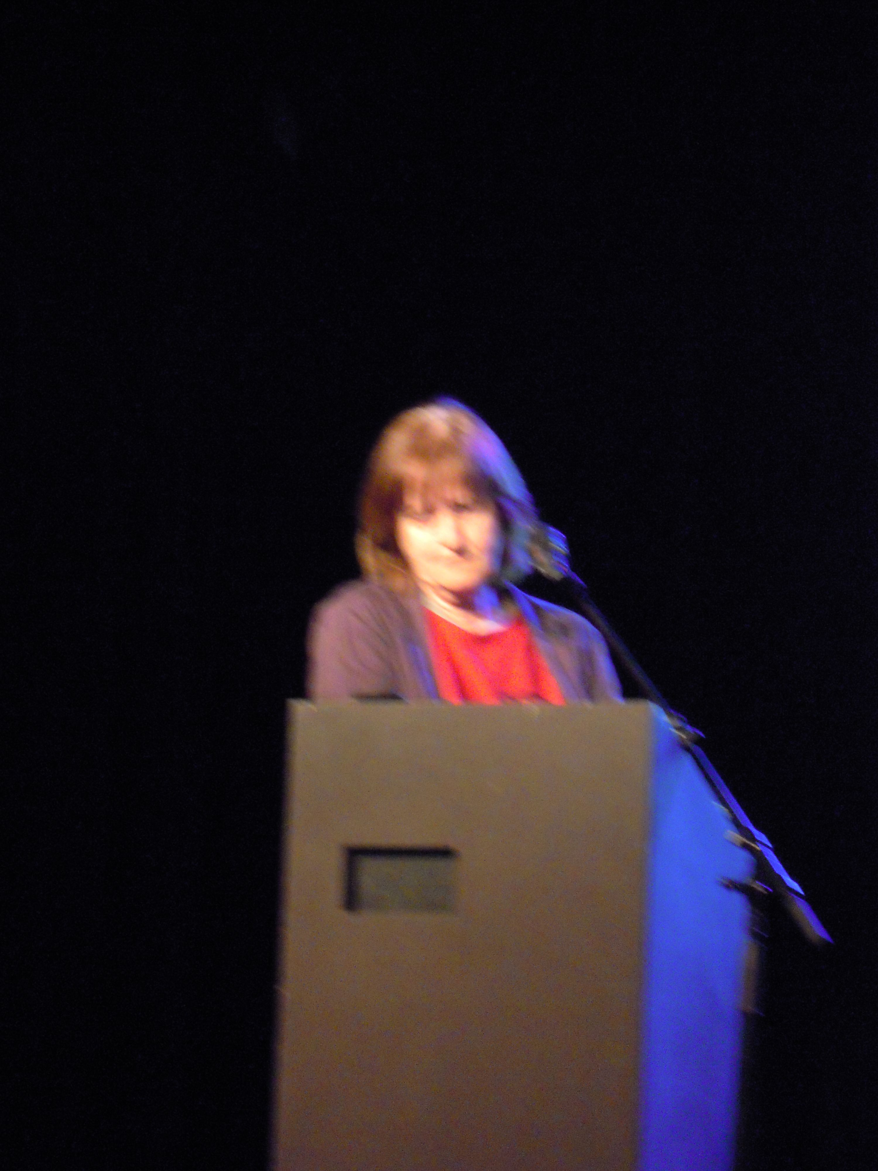 Astrid Proll, German former RAF (Rote Armee Fraktion) terrorist, speaking in Rotterdam, The Netherlands at a conference about extremism. Very blurry image due to poor lighting.